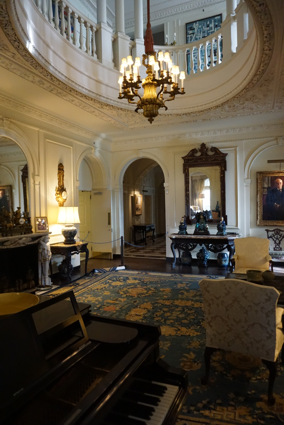 Went back to Kykuit in Mount Pleasant on October 23. I have more photos but it seems the cat already has tons of ok ones.